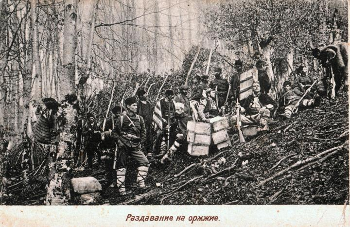 Weapon delivery for IMARO cheta in Macedonia